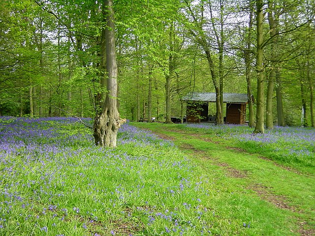 Bluebells. Near the railway halt at Stony Shaw, Bredgar & Wormshill Light Railway.